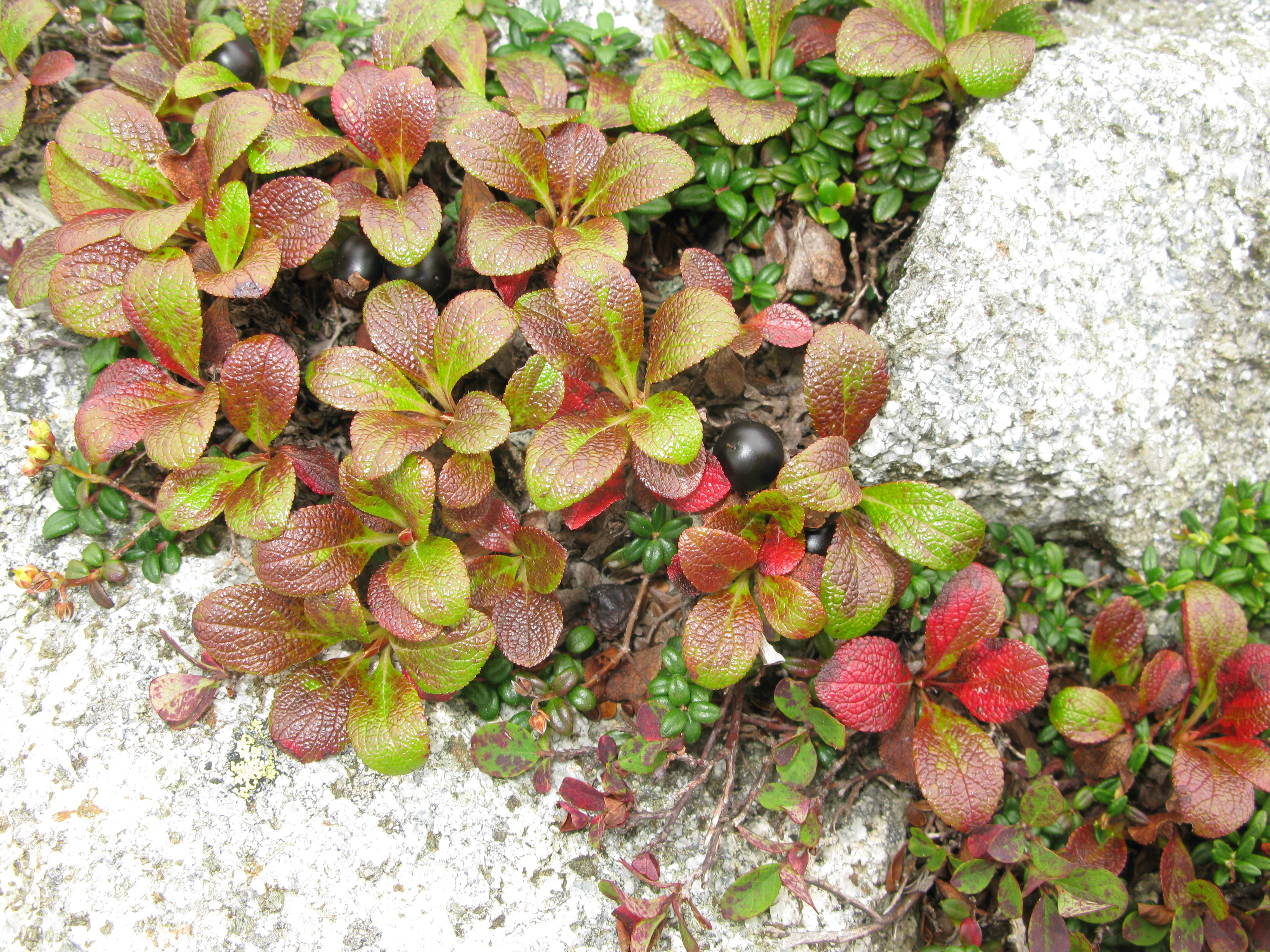 Arctous alpina var. japonica ,Mt. Iide, Fukushima pref., Japan